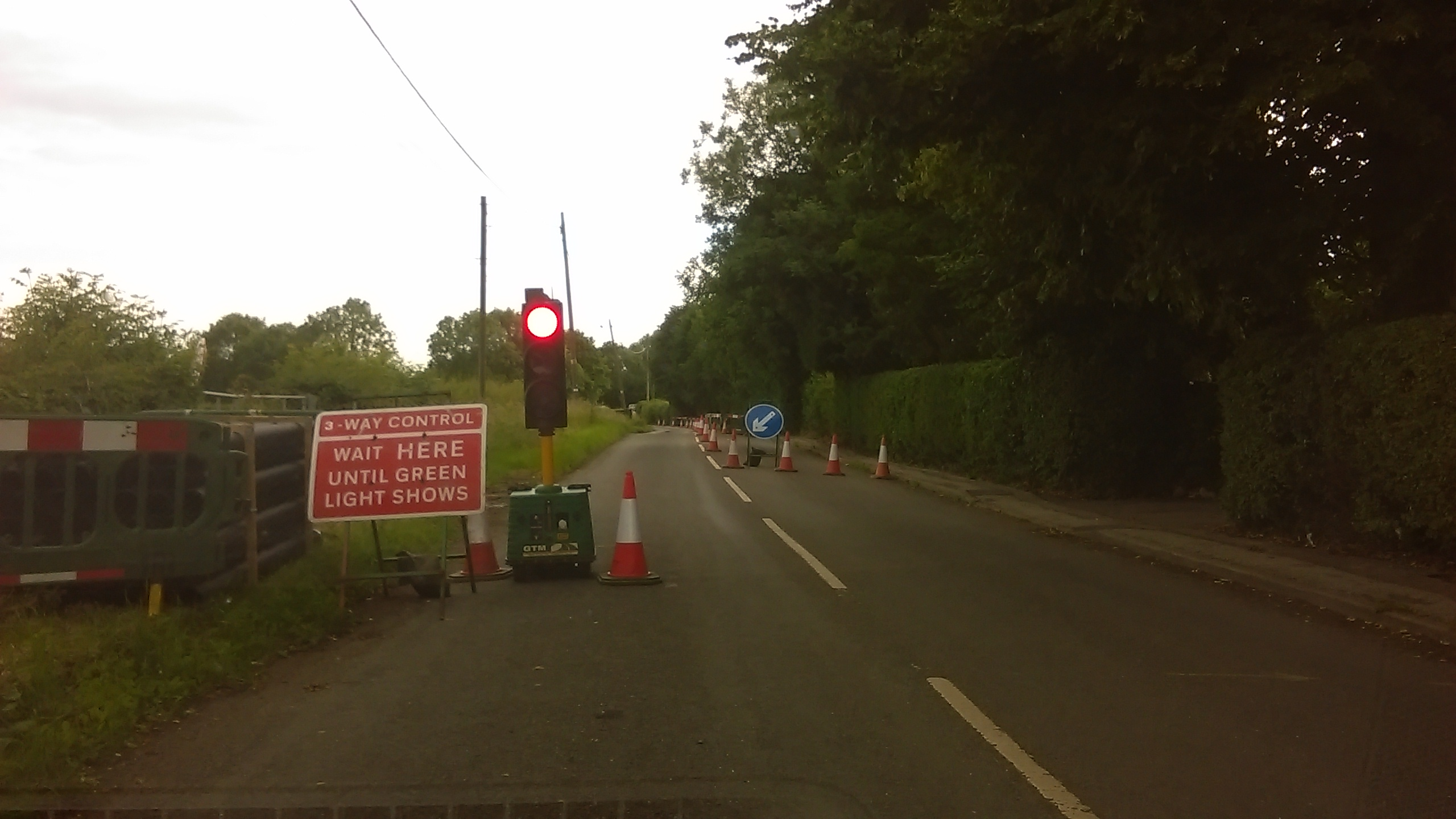 Roadworks at Kingston Lane, Kegworth, Leicestershire using temporary traffic lights to control a long section of road where one lane is closed. 3-way control to incorporate a road junction within the controlled section.